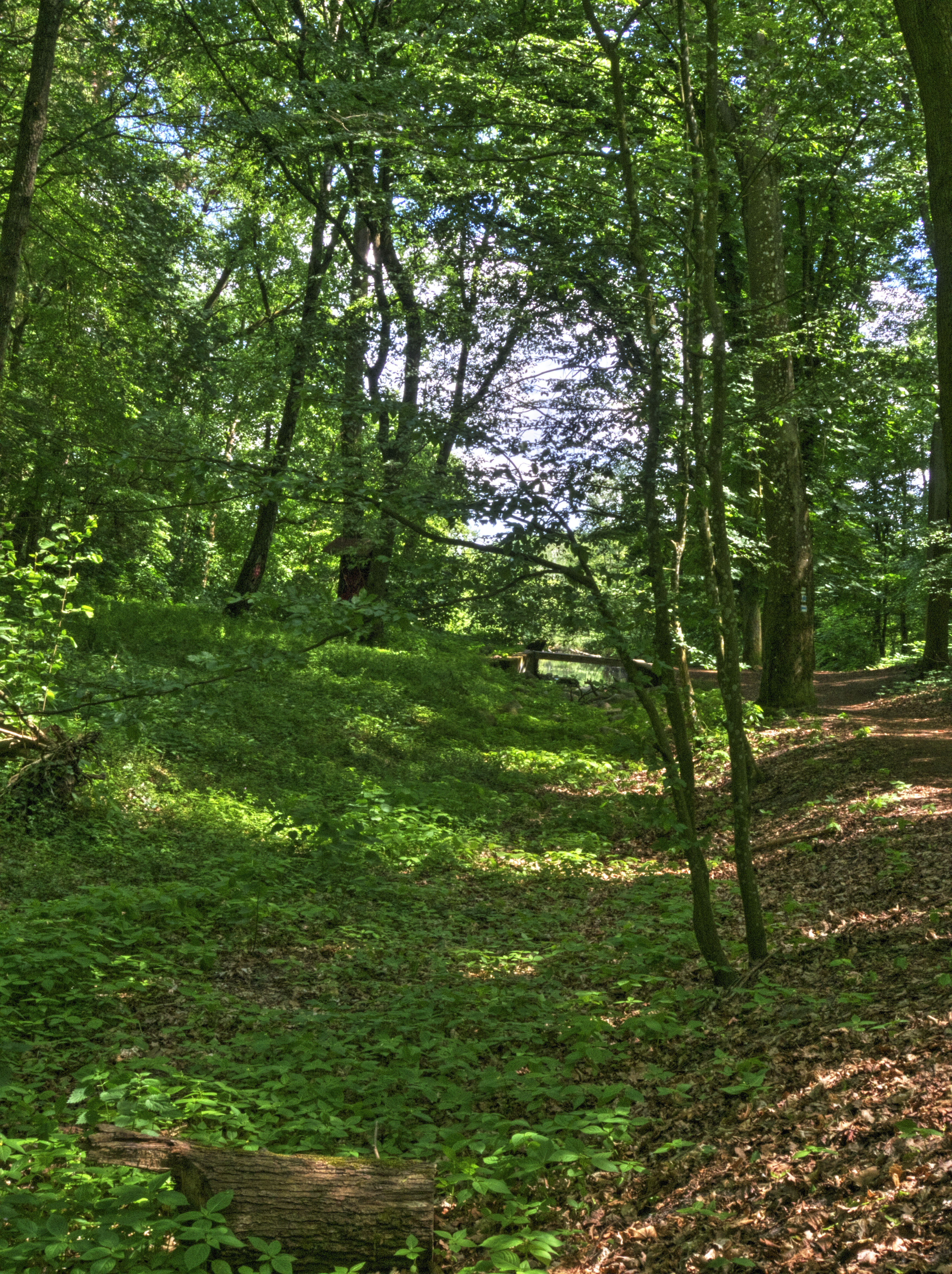 The photo shows the dried out southern outflow from lake Herrensee, the so-called Anna-Fließ in 2016 (part of the Special Area of Conservation DE-3449-301, which includes lake Herrensee, the Lange-Damm-Wiesen und Barnimhänge near the city of Strausberg, Brandenburg). In the years of 2011 and 2012, lake Herrensee and the surroundings moist areas were well watered, but have turned significantly dryer during the drought since 2013. The photos from 2011/2012 and 2016 should be compared with regard to changes in water level.